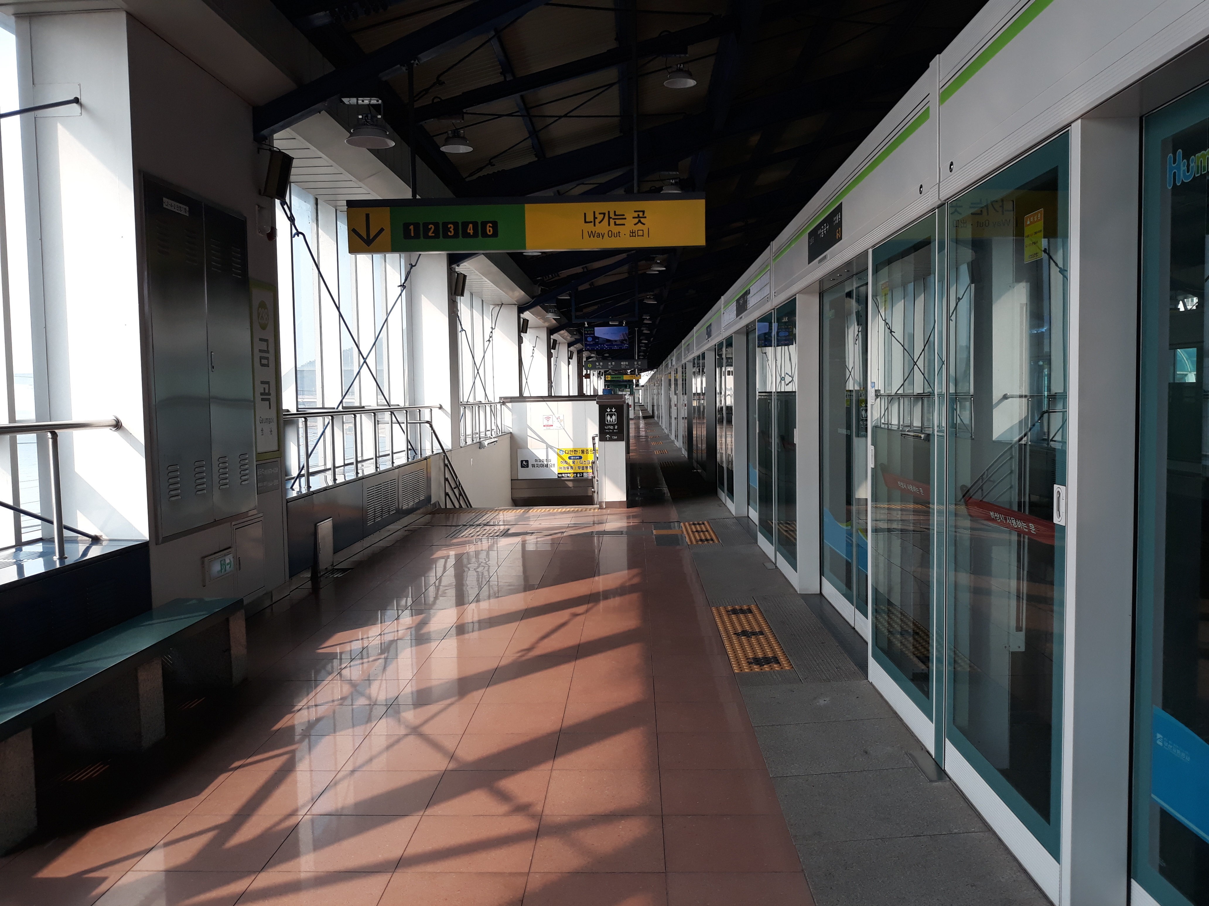 The platform for Jangsan at Geumgok station on the Busan metro Line 2